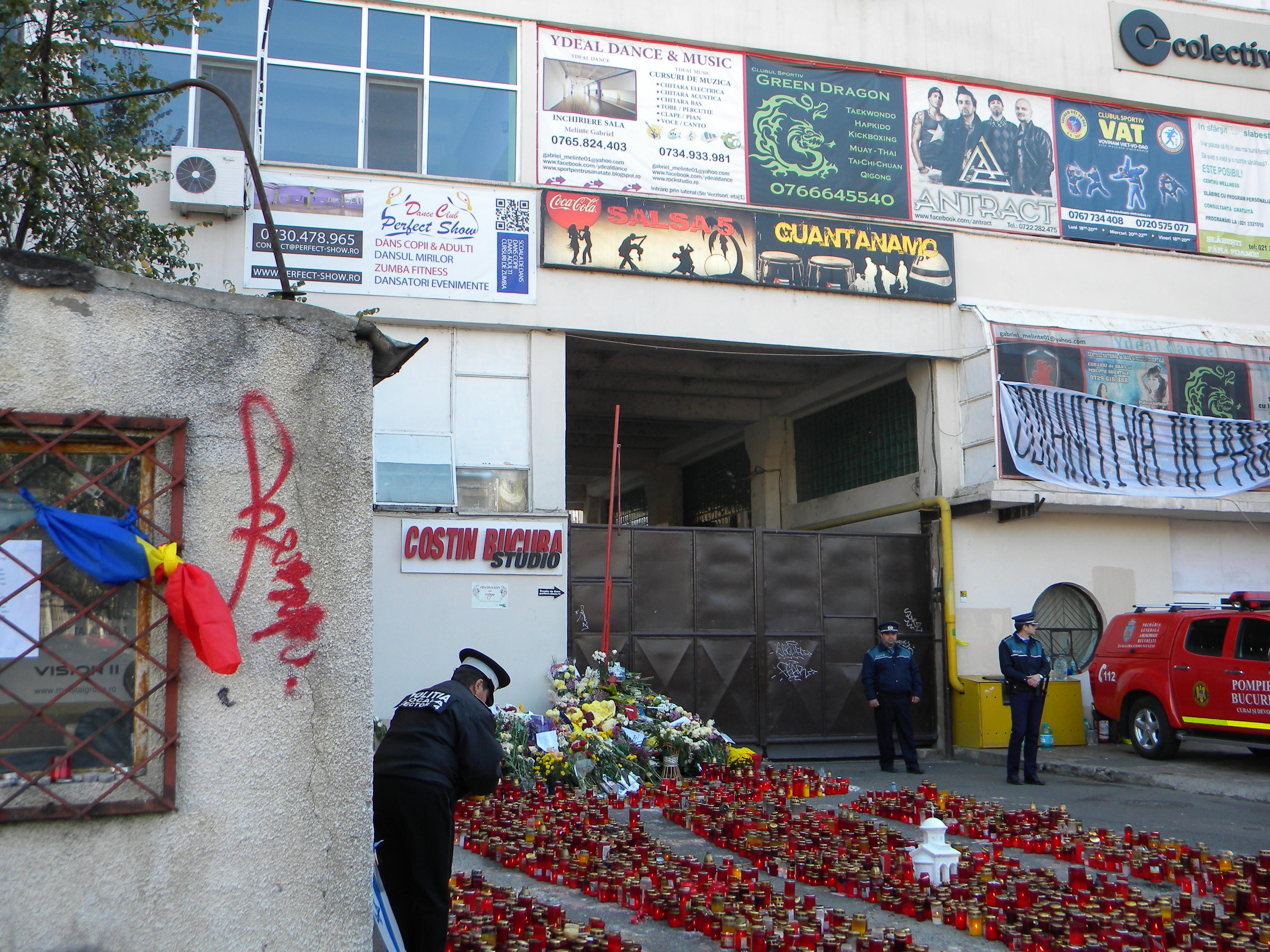 Bucuresti, Romania, Clubul Colectiv (Clubul mortii) (oamenii de ordine aprinzand candele)